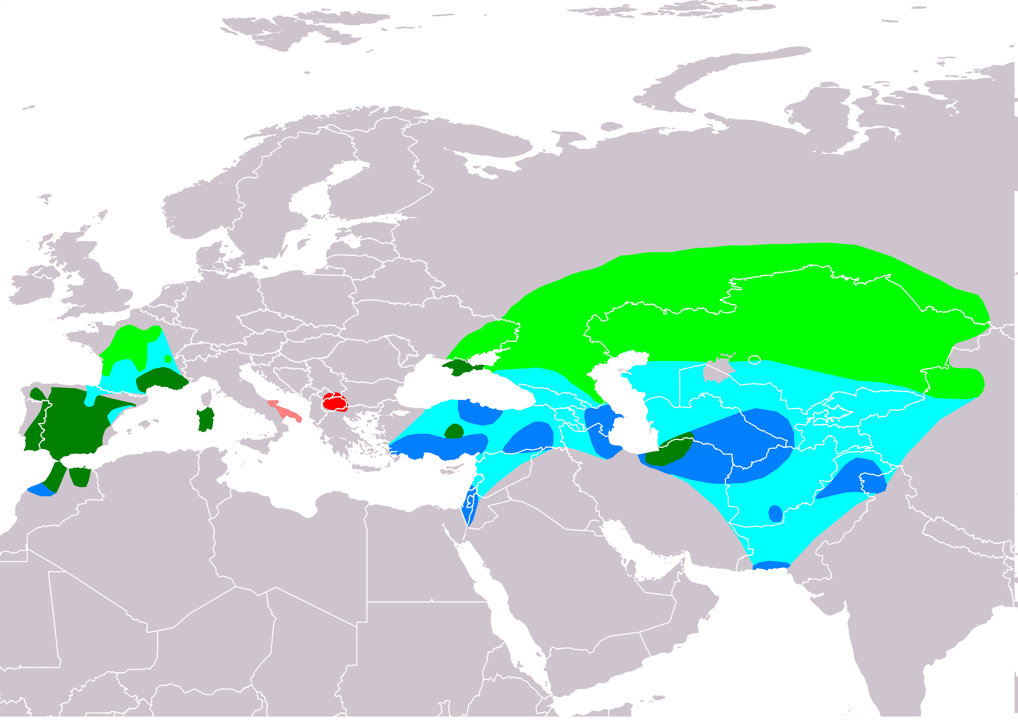 map of little bustard (Tetrax tetrax) according to IUCN version 2018.2 Legend: Extant, breeding (#00ff00), Extant, resident (#008000), Extant, passage (#00ffff), Extant, non-breeding (#007fff), Extinct (#FF0000), Probably extinct (#FF8080)